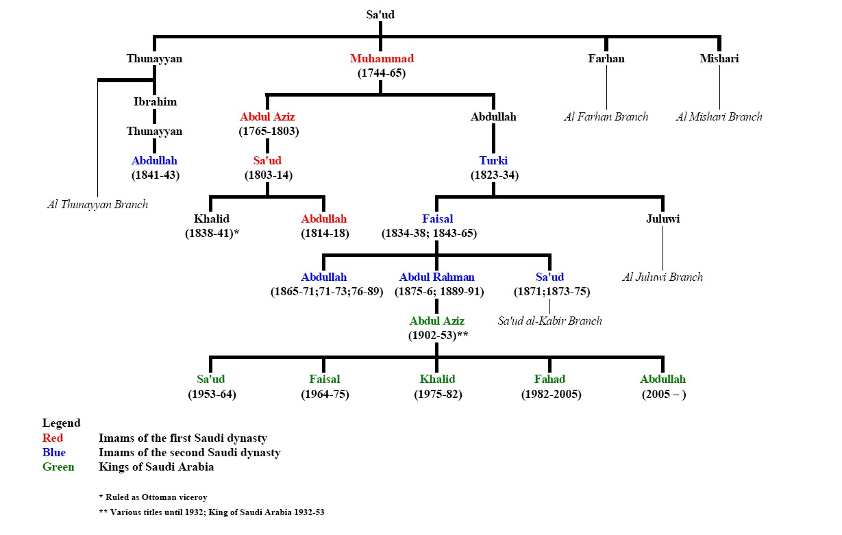 House of Saud